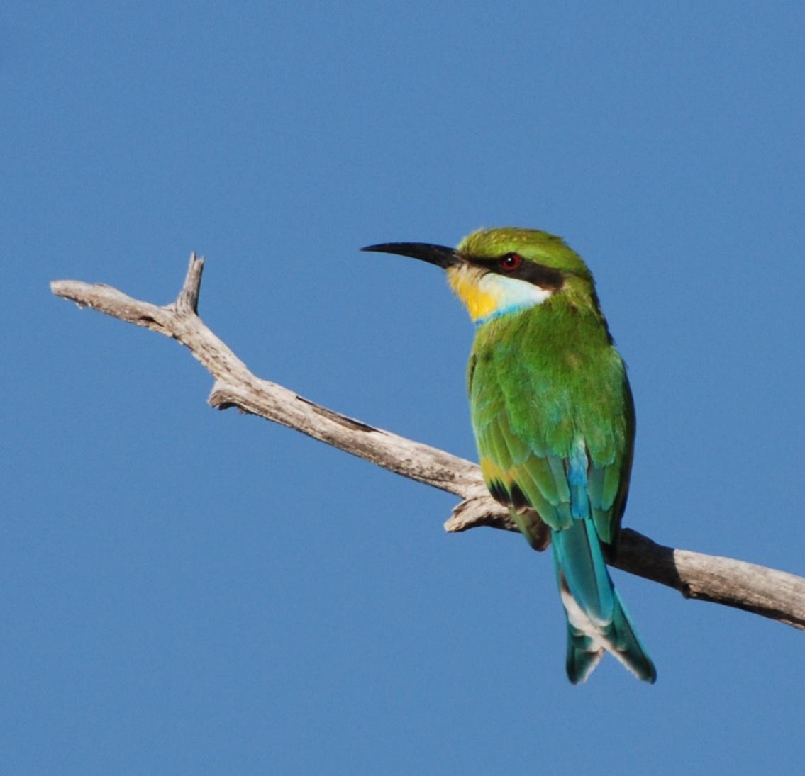 Swallow-tailed Bee-eater (Merops hirundineus) in Etosha National Park, Namibia